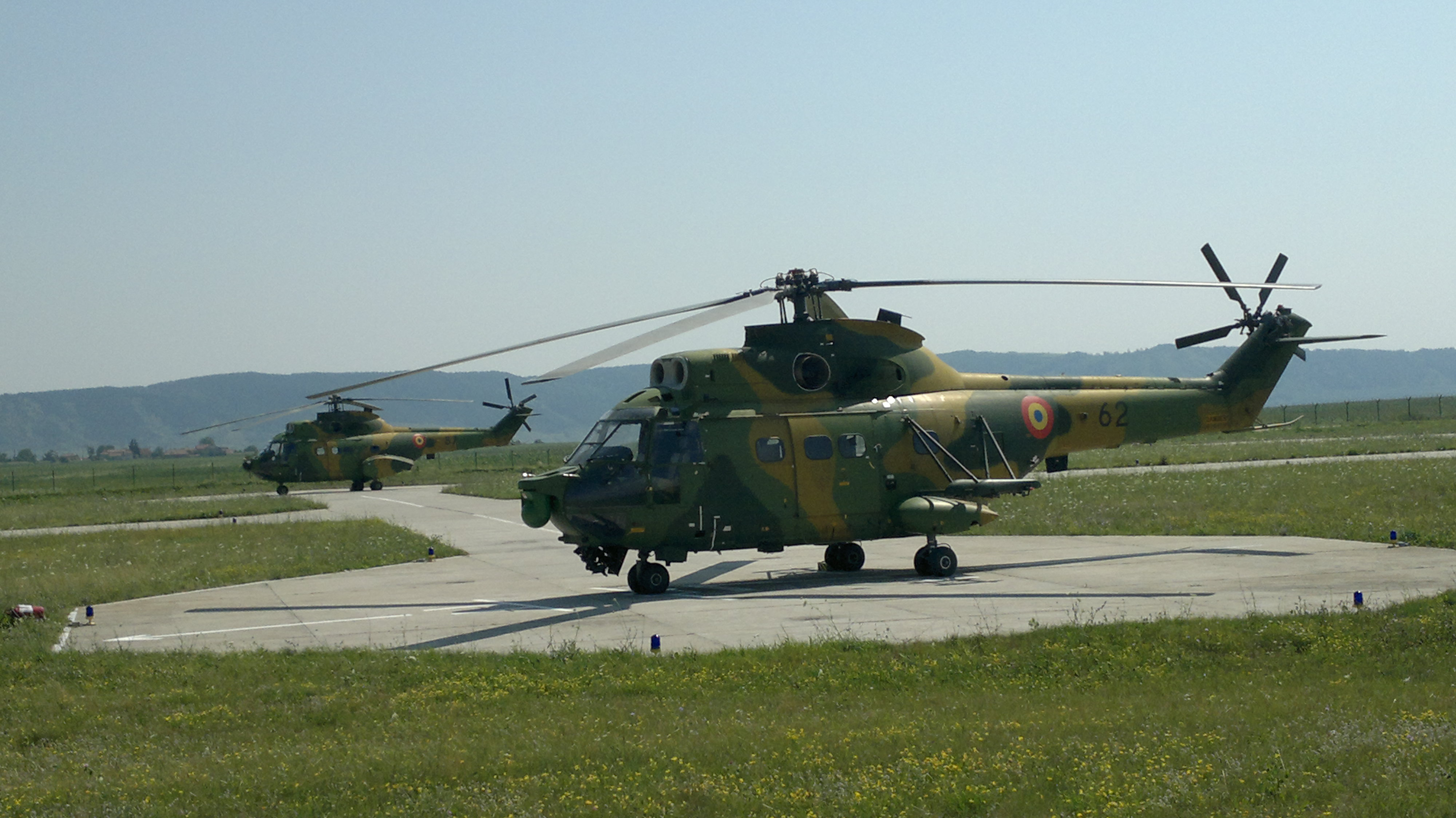 Two IAR-330s SOCAT transport/attack helicopters at the 71st Air Base of the Romanian Air Force.